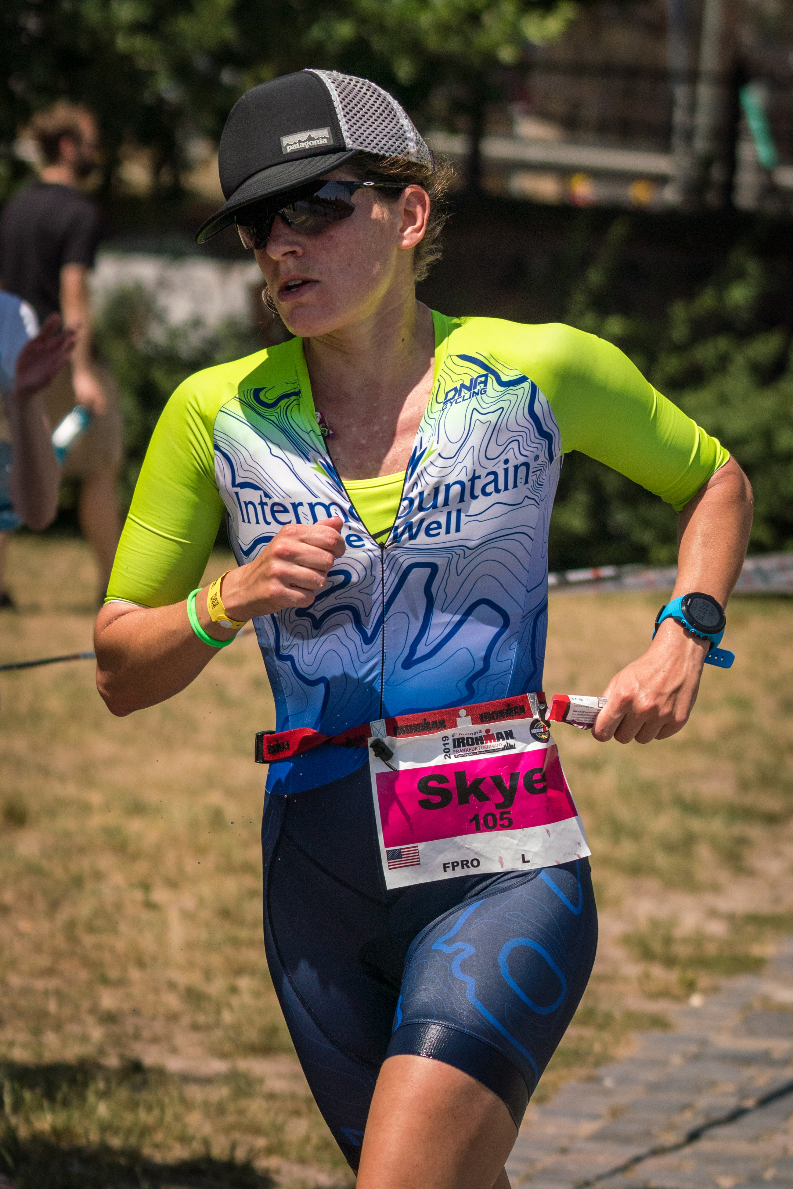 First female Skye Moench at the 2019 Ironman European Championship in Frankfurt am Main (Germany).